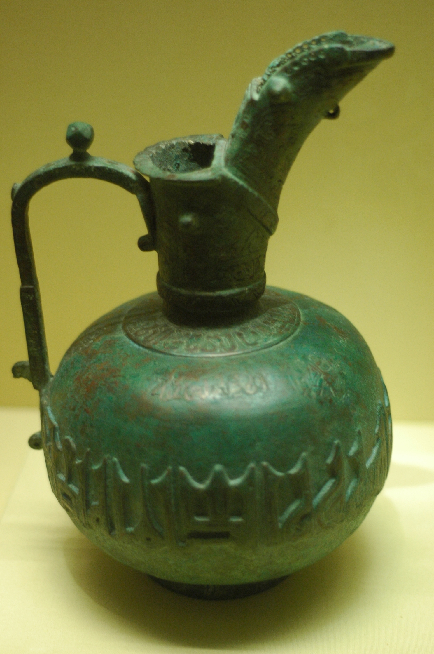 Long-spouted ewer bearing the signature "al-Quasir". Iran, 12th century. Molded bronze with silver incrustations. Metropolitan Museum of Art (MET 1953).